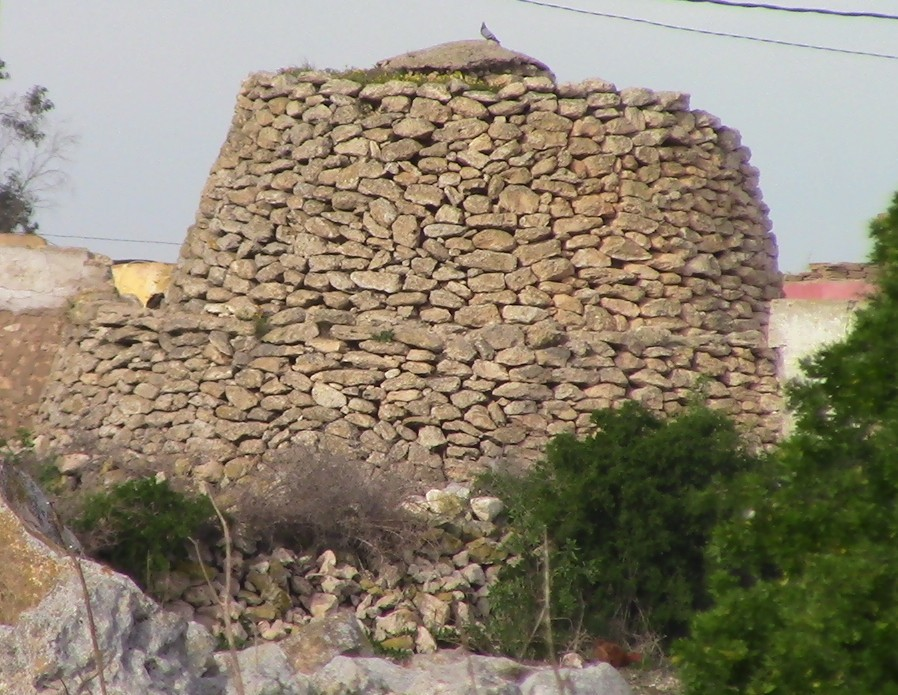 A Tazota, Municipality of Sidi Abed, Province of el-Jadida, Morocco